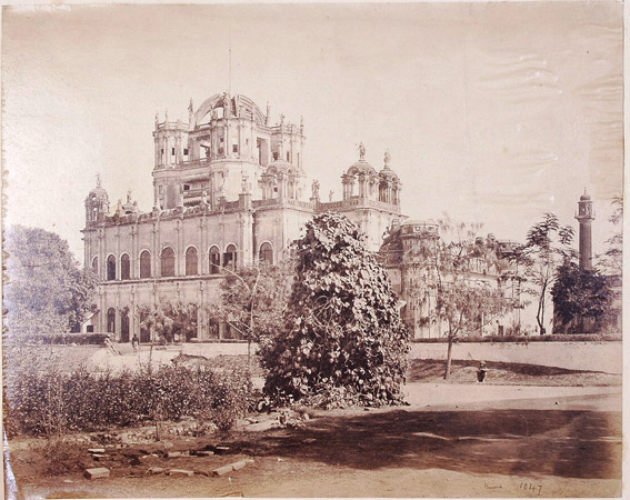 La Martiere, Lucknow, India